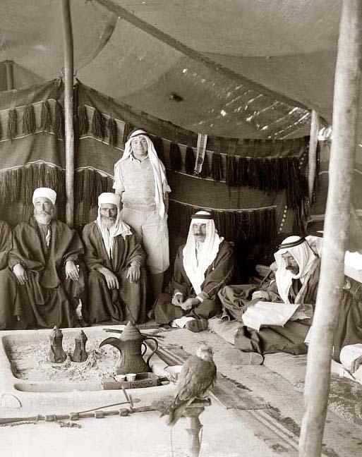 Five men in a traditional tent Arab Tent. They have a fire pit, and are having tea. There is a Falcon in the foreground (created in between 1898 and 1946).